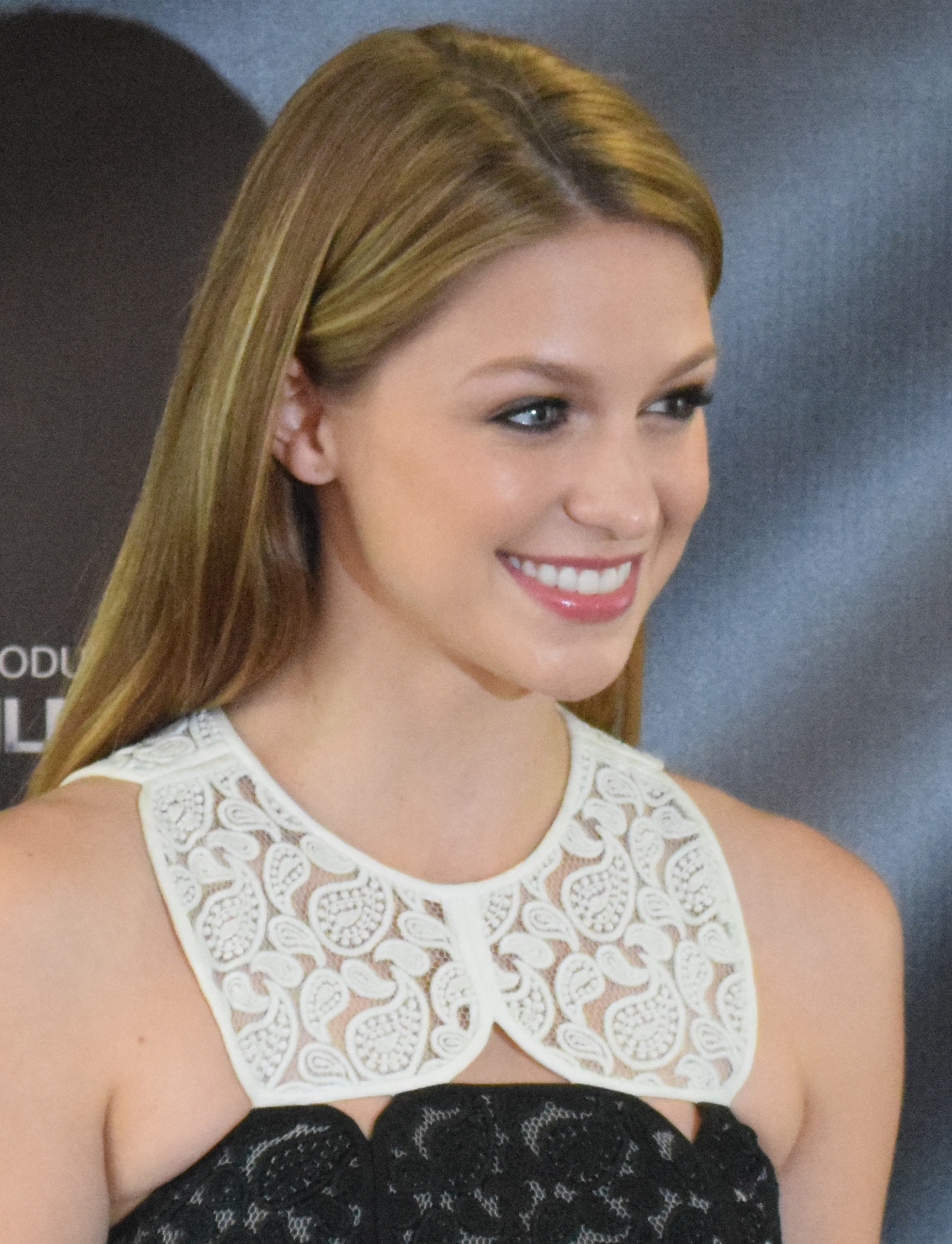 Mingle Media TV and our Red Carpet Report team with host Quinn Marie were on hand for the Band of Robbers World Premiere at LA Film Festival at LA Live in Los Angeles. Band of Robbers is a modern riff on Mark Twain’s Tom Sawyer and Huck Finn and stars Kyle Gallner (American Sniper, Dear White People, The Finest Hours), Adam Nee (Drunk History), Matthew Gray Gubler (Criminal Minds, 500 Days of Summer, The Life Aquatic with Steve Zissou), Hannibal Buress (SNL Emmy-nominated writer, Broad City, Neighbors), Melissa Benoist (Glee, Supergirl), Daniel Mora (The Bridge), Eric Christian Olsen (NCIS: Los Angeles), and Stephen Lang (Avatar, Salem). Get the Story from the Red Carpet Report Team, follow us on Twitter and Facebook at: About Band of Robbers A modern-day retelling of Mark Twain’s iconic books, Band of Robbers is a comedic adventure that reimagines the characters as grown men, and small-time crooks. When Huck Finn is released from prison, he hopes to leave his criminal life behind, but his lifelong friend, and corrupt cop, Tom Sawyer, has other plans. Not ready to give up on his childhood fantasies, Tom forms the Band of Robbers, recruiting their misfit friends, Joe Harper and Ben Rogers, to join them for an elaborate plan to find a fabled treasure. But the plan soon unravels, thrusting the guys on a wild journey with dangerous consequences. Find out more at For more of Mingle Media TV’s Red Carpet Report coverage, please visit our website and follow us on Twitter and Facebook here: Follow our host, Quinn on Twitter